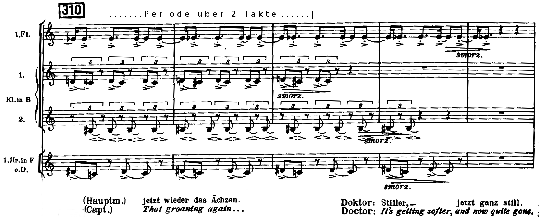 Time 310 to 315 from act III of Alban Bergs opera "Wozzeck", 1925. Own annotation of the score edited by H.E.Apostel, Universal Edition 1955, p.464.